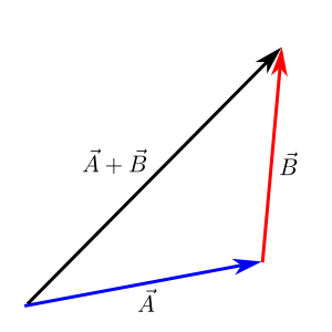 Illustration of geometric head-to-tail addition of vectors